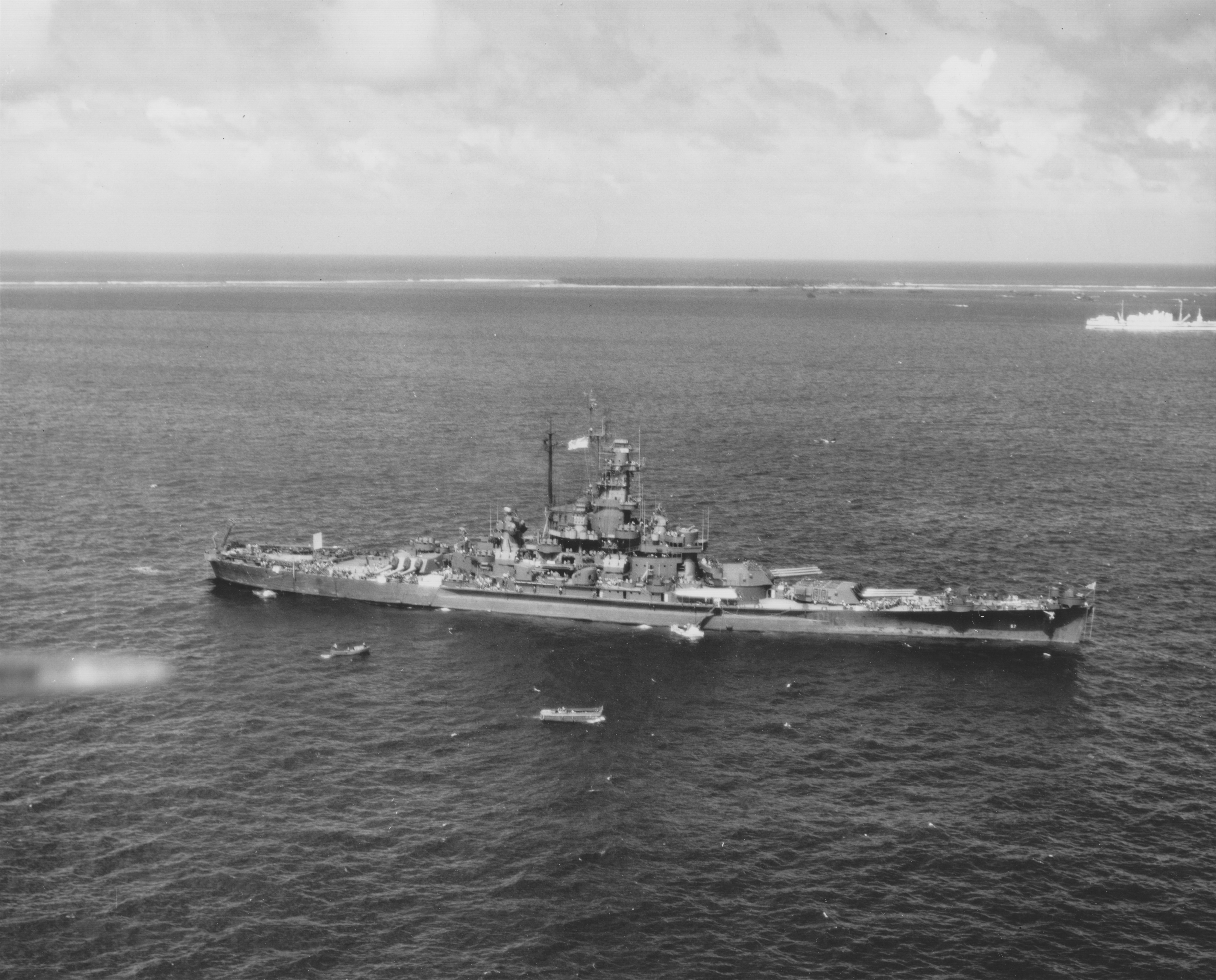 The USS South Dakota in Ulithi Atoll in December 1944. The hospital ship in the background, identified on the photo as the USS Solace, is instead almost certainly the USS Samaritan. Box: 19LCM, BB-57, BN204; Folder: BuAer 294133 - 294134 BuAer 294134